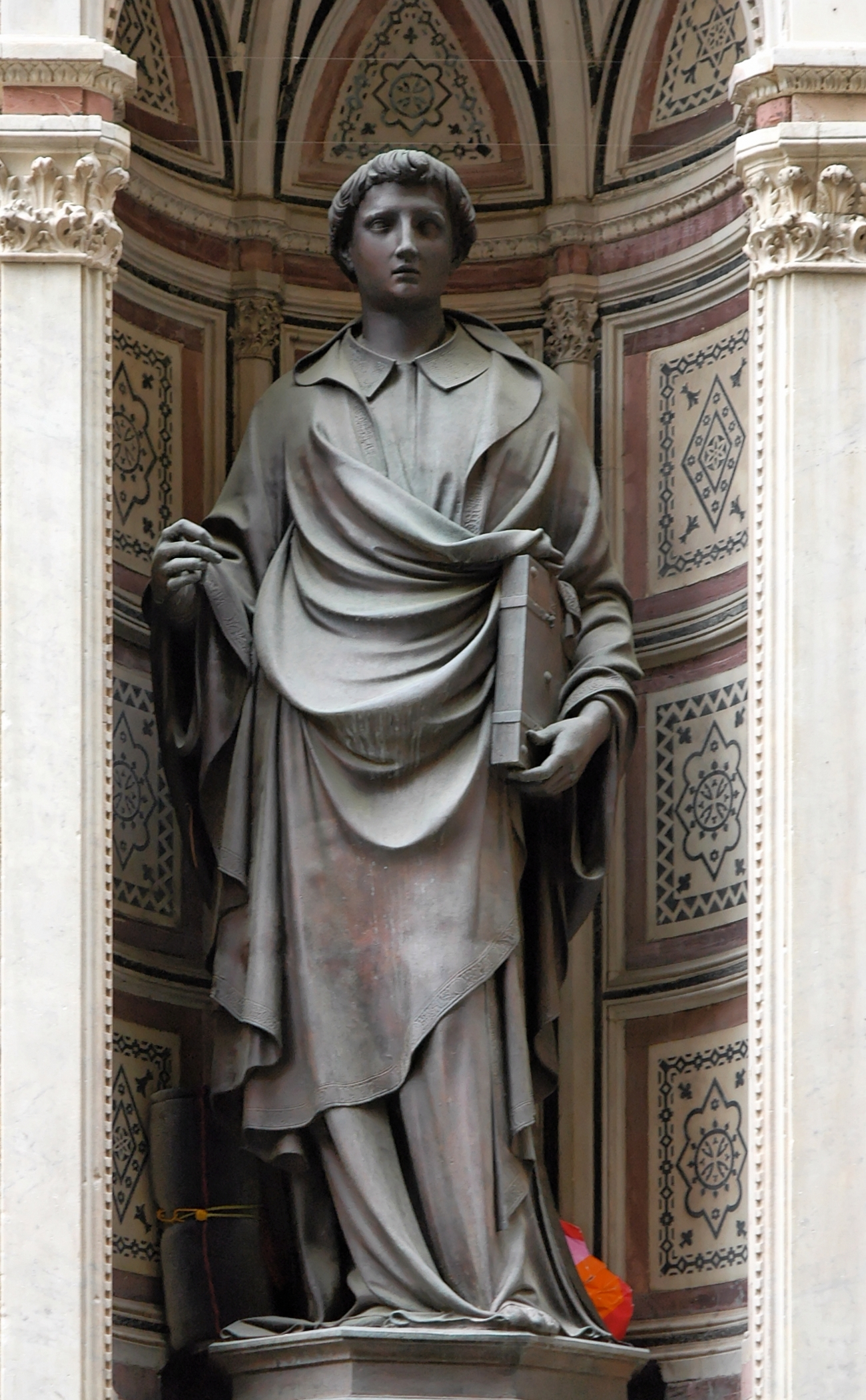 St Stephen. Statue commissioned by the Arte della Lana (guild of wool manufacturers). Orsanmichele, Florence.